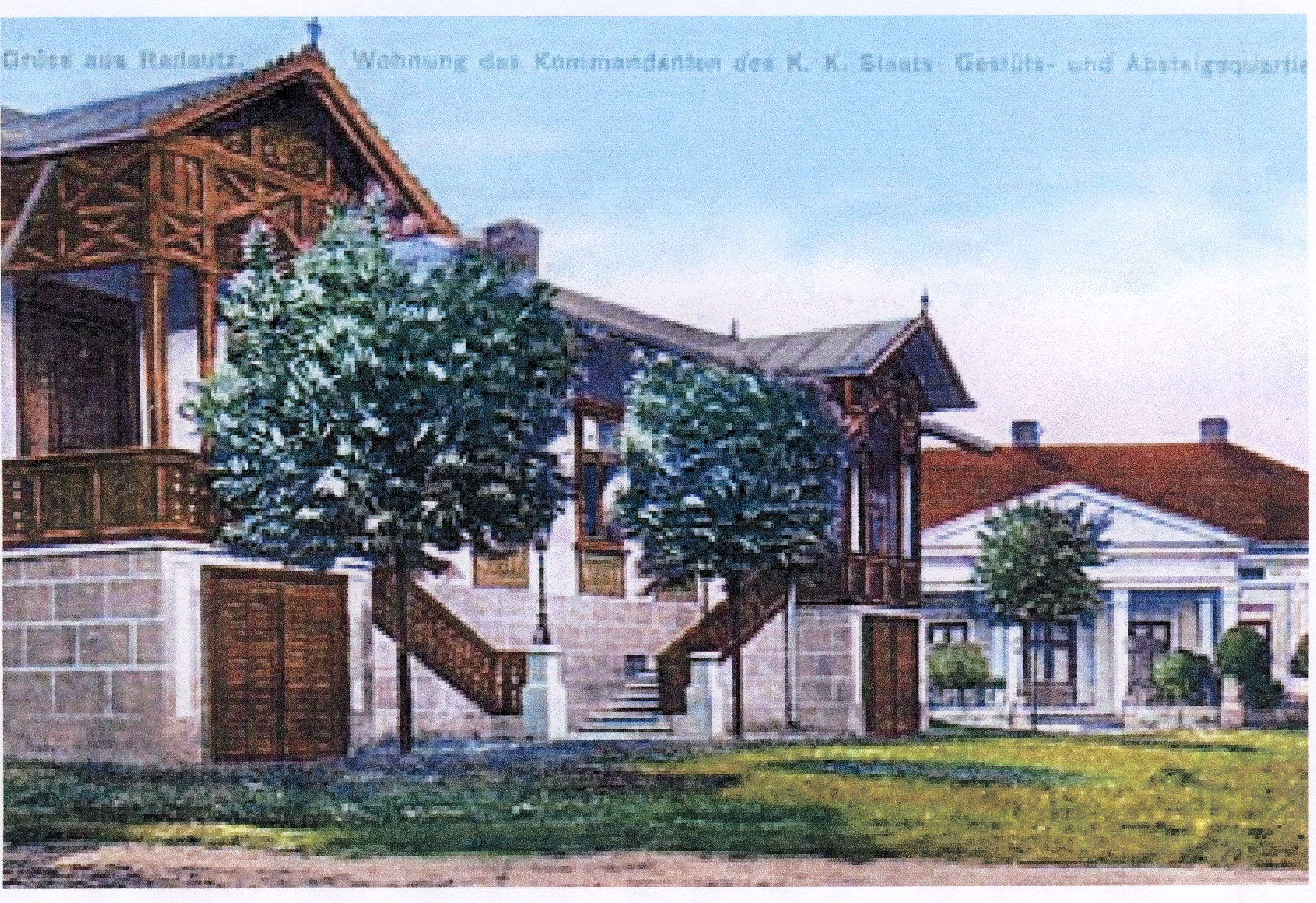 Commander's House of the State Military Horse-Breeding farm in Radautz/Bukovina, hand coloured postcard c1885